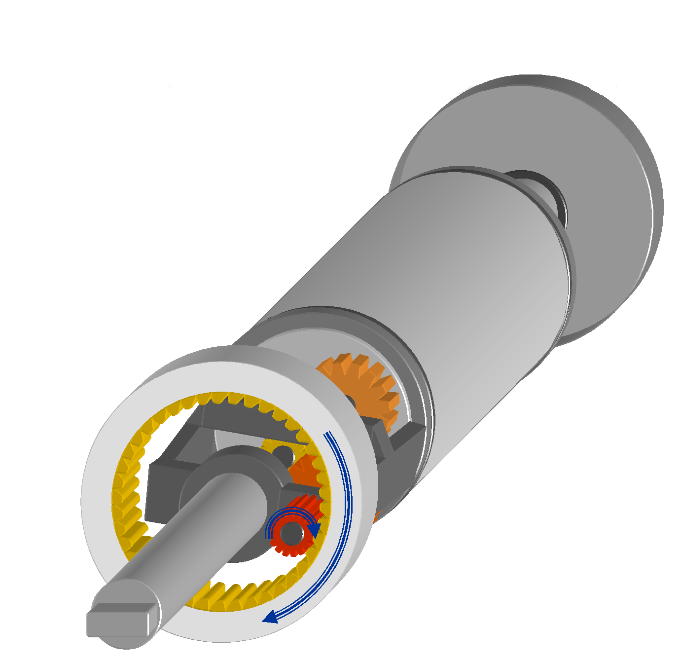 Interroll production center